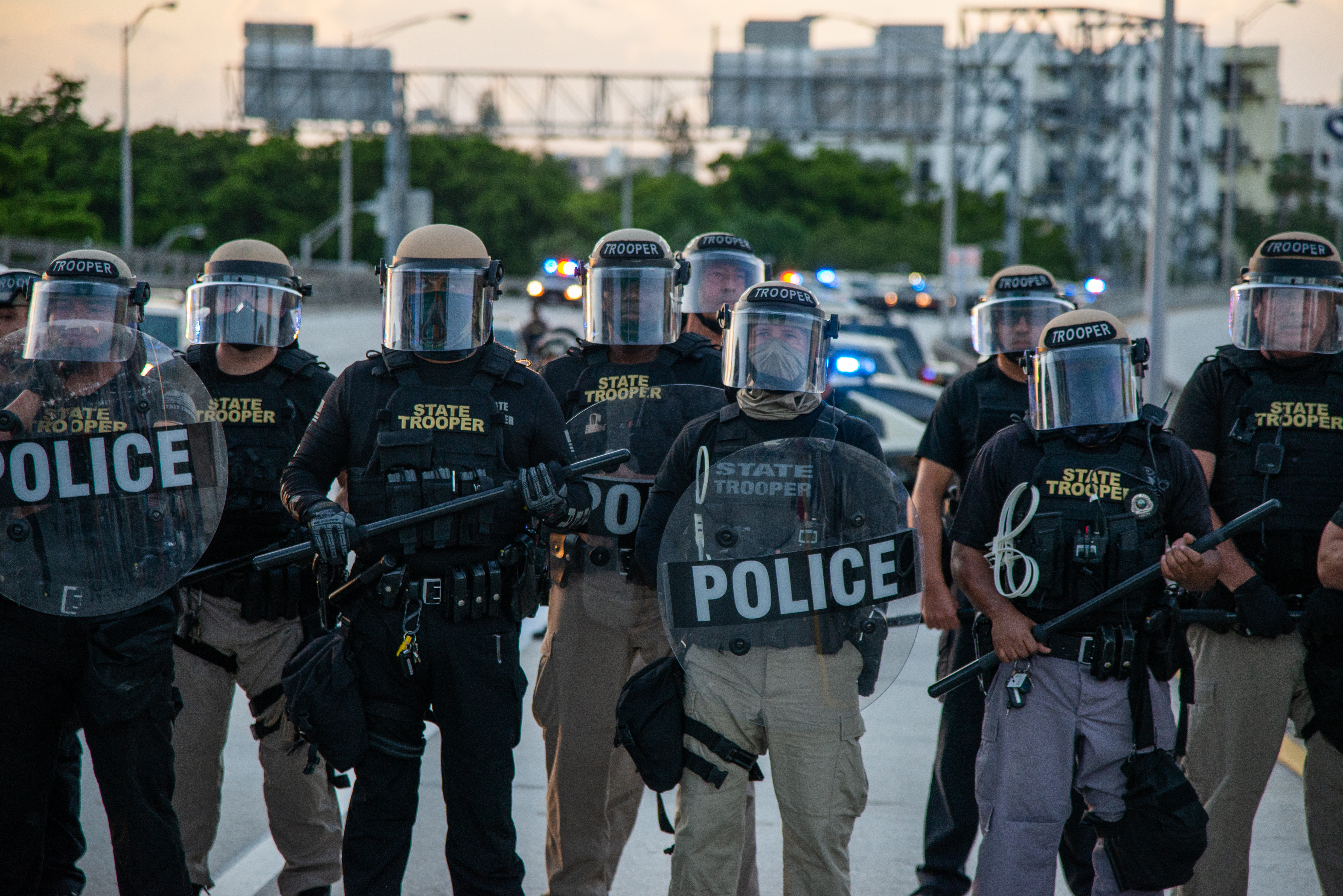 Protesters meet police on I-95 during the Downtown Miami protests on June 12